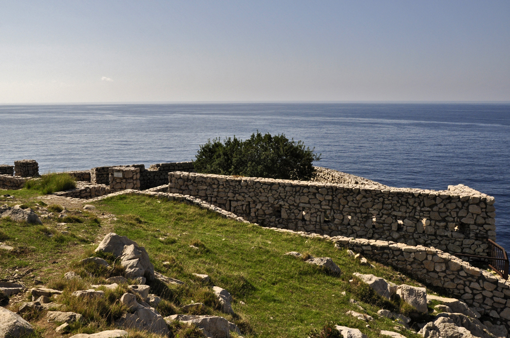 View of Fortino di Orrico